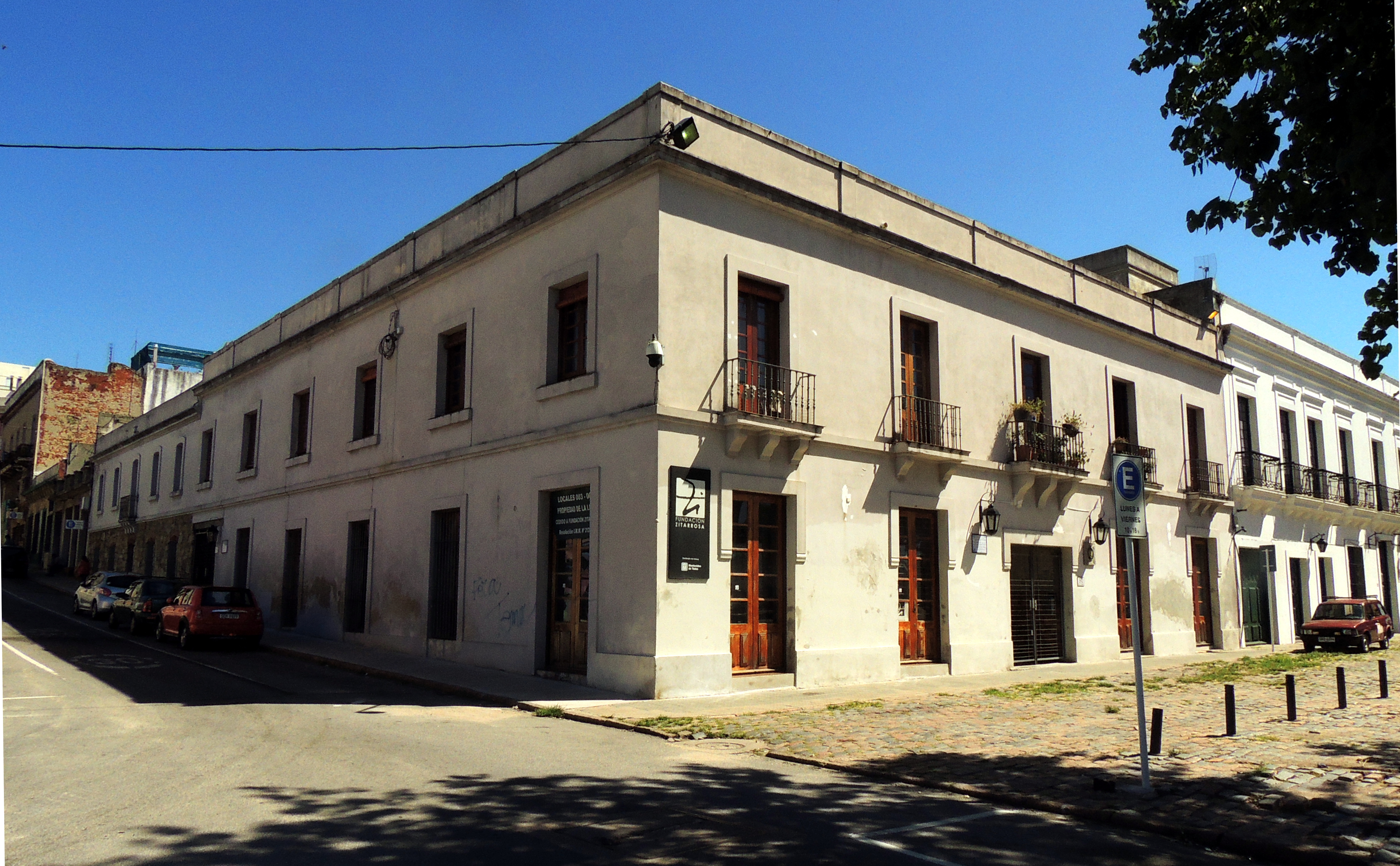 Casa del Brigadier Gral. Bernardo Lecocq in Montevideo, Uruguay.